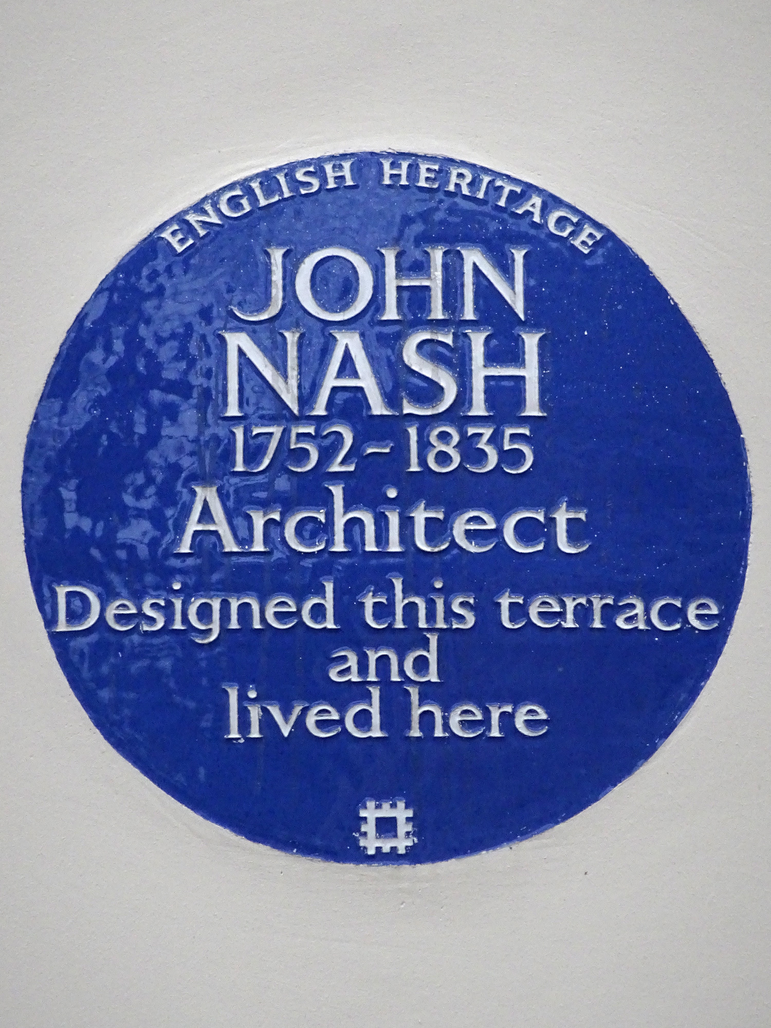 Blue plaque erected in 2013 by English Heritage at 66 Great Russell Street, Bloomsbury, London WC1B 3BN, London Borough of Camden